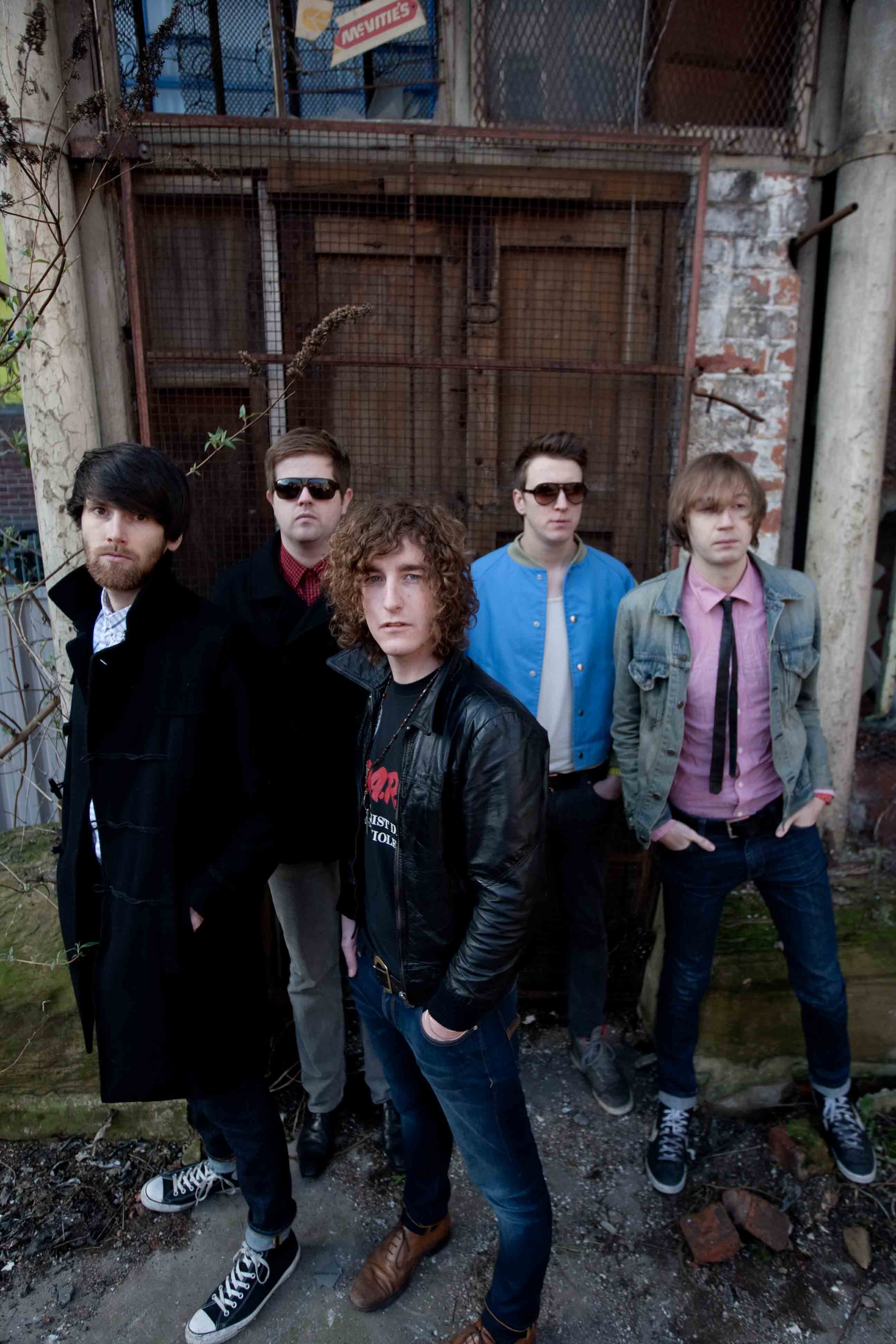 The Pigeon Detectives press shot